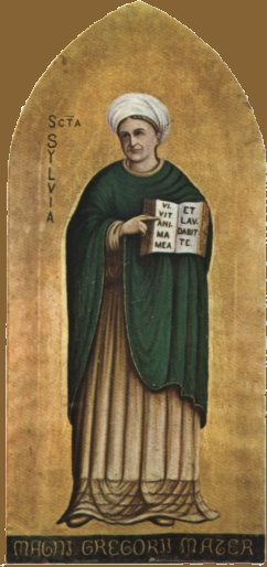 Saint Sylvia, by an Italian painter